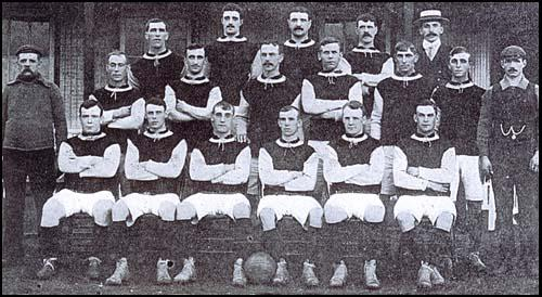 The West Ham United football team for the 1904-05 season. Back row (left to right): Herbert Bamlett, Aubrey Fair, Matt Kingsley, David Gardner, Syd King (manager): Middle row: Tom Robinson (trainer), Fred Brunton, Tommy Allison, Frank Piercy, John Russell, Len Jarvis, Fred Mercer, Charlie Paynter (assistant trainer). Front row: William McCartney, Charlie Simmons, Billy Bridgeman, Jack Fletcher, Christopher Carrick, Jack Flynn.